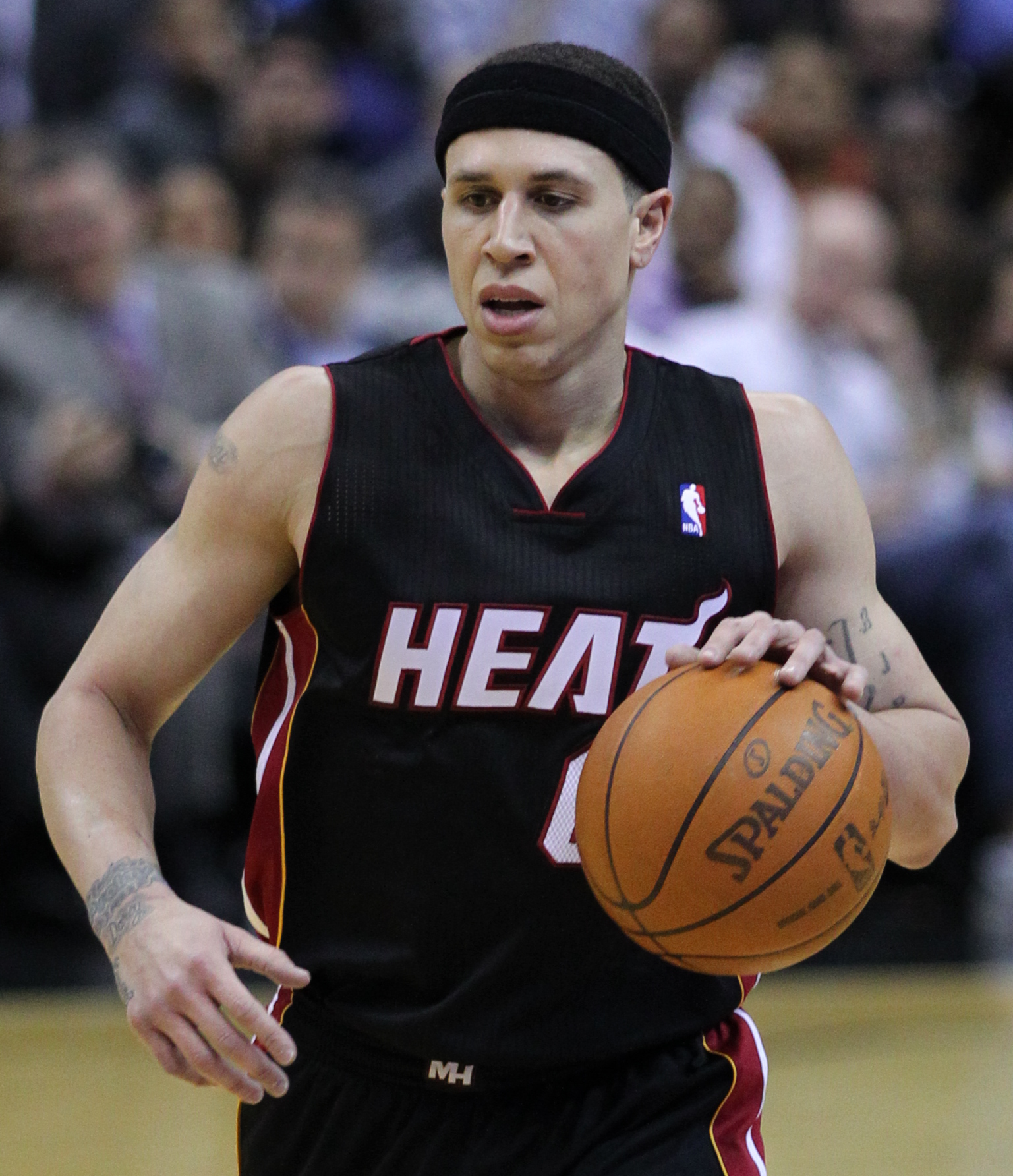 Mike Bibby: Washington Wizards v/s Miami Heat March 30, 2011